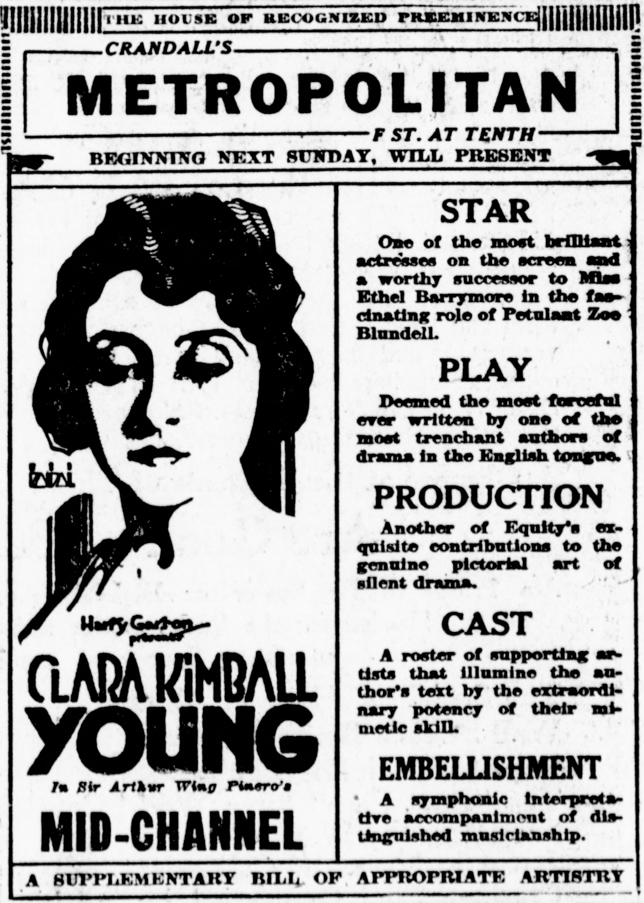 Mid-Channel is a 1920 silent film drama based on a play written by Sir Arthur Wing Pinero. This is a newspaper advertisement for the film from the The Washington Times.